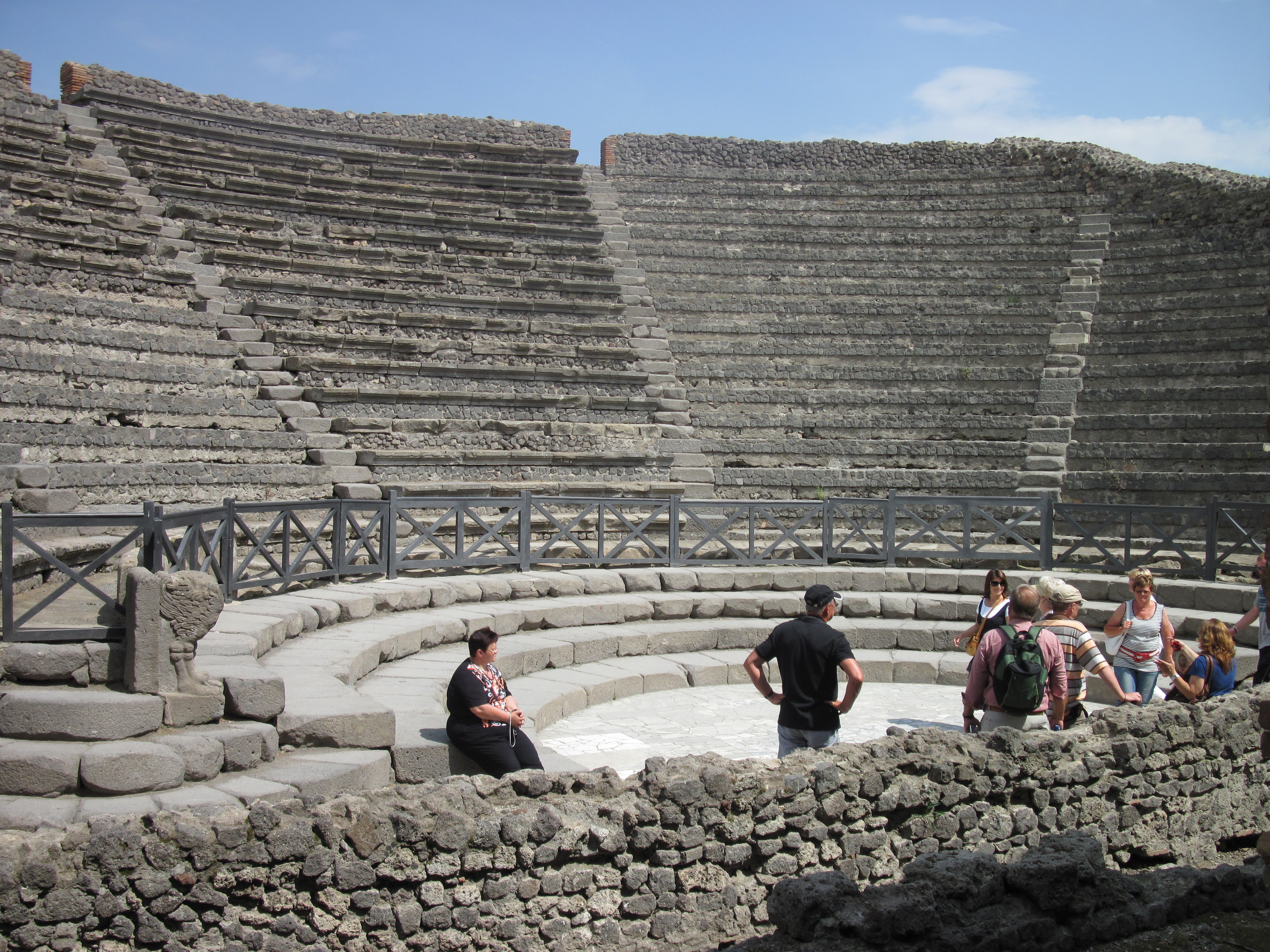 Pompei. Small theatre.